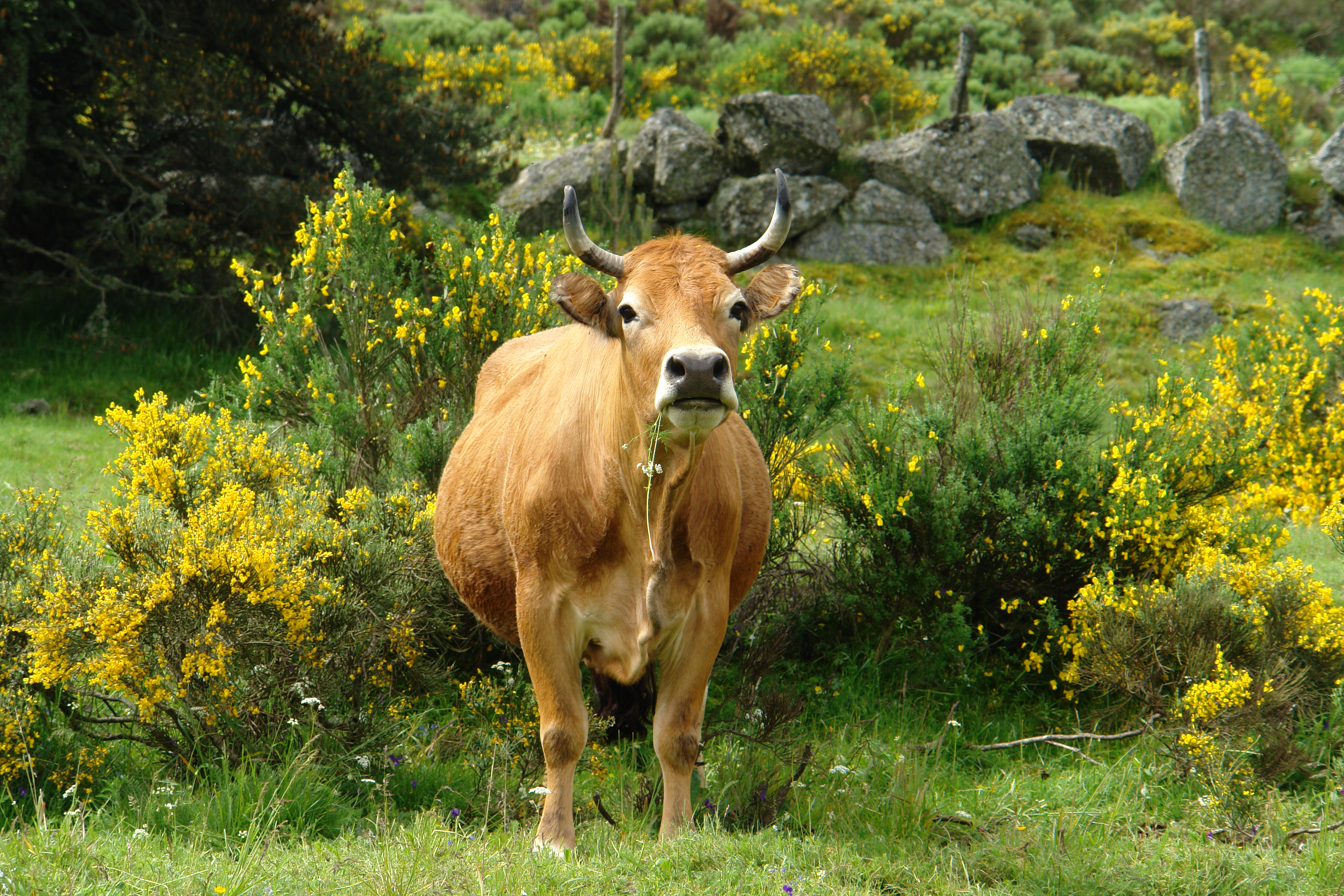 Map it: Google Earth | Street | Satellite | Hybrid | Nautical